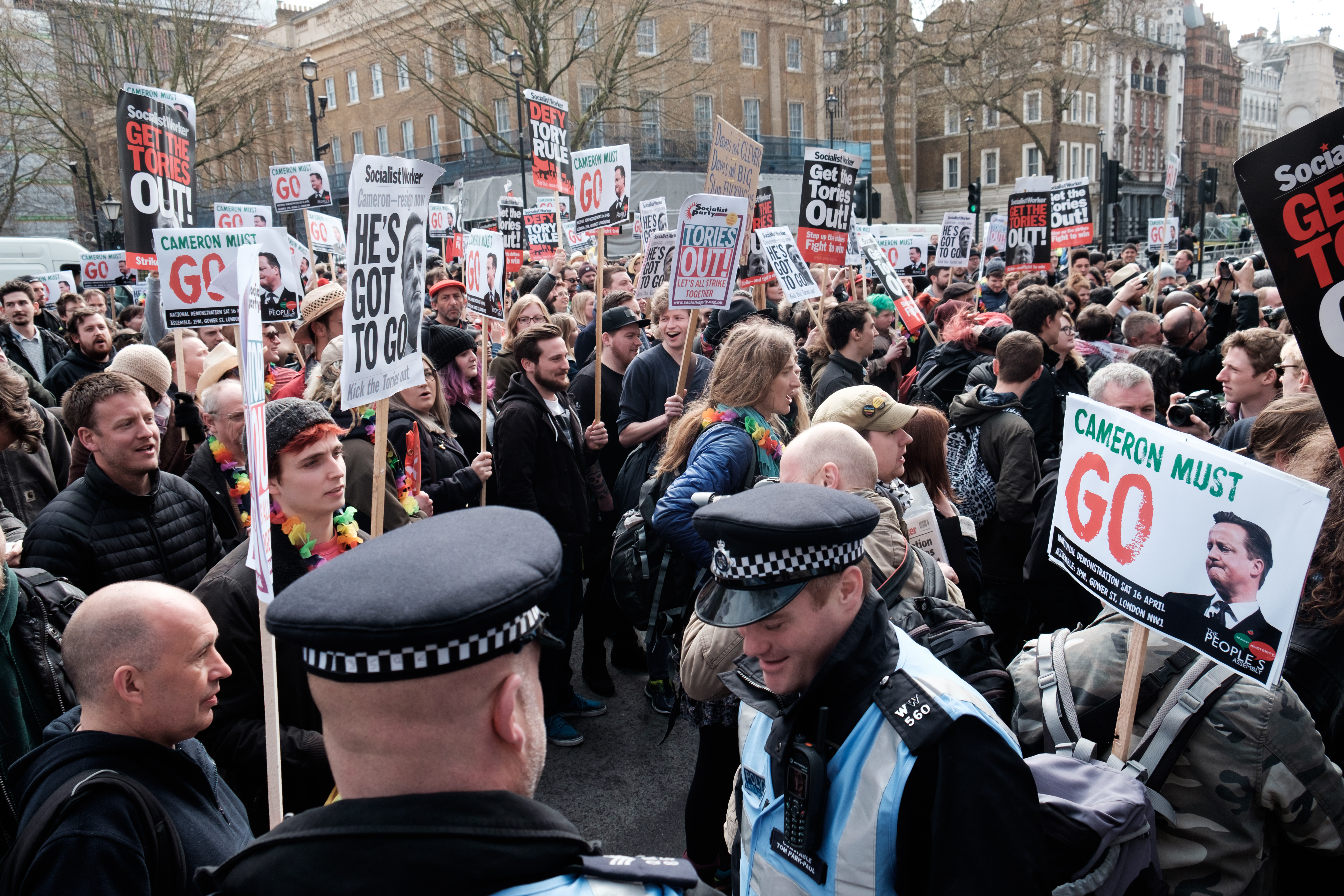 Protesters angry at David Cameron over his alleged tax affairs protested outside Downing Street then marched up Whitehall, along the Strand and up to Holborn.